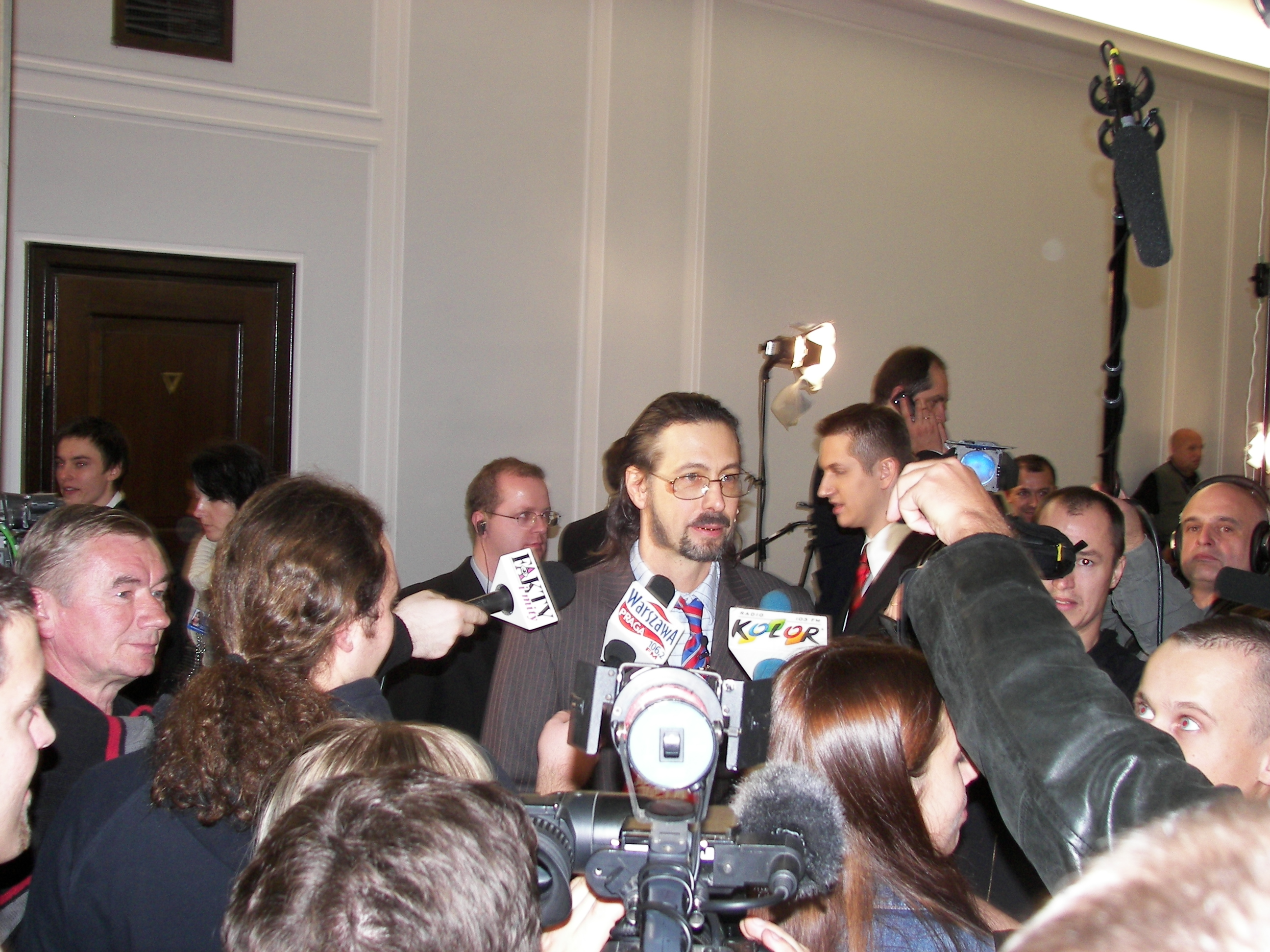 Szymon Majewski - Polish journalist, shownam, radio / TV announcer and comedian during his appearance in the Polish parliament, November 5th, 2007